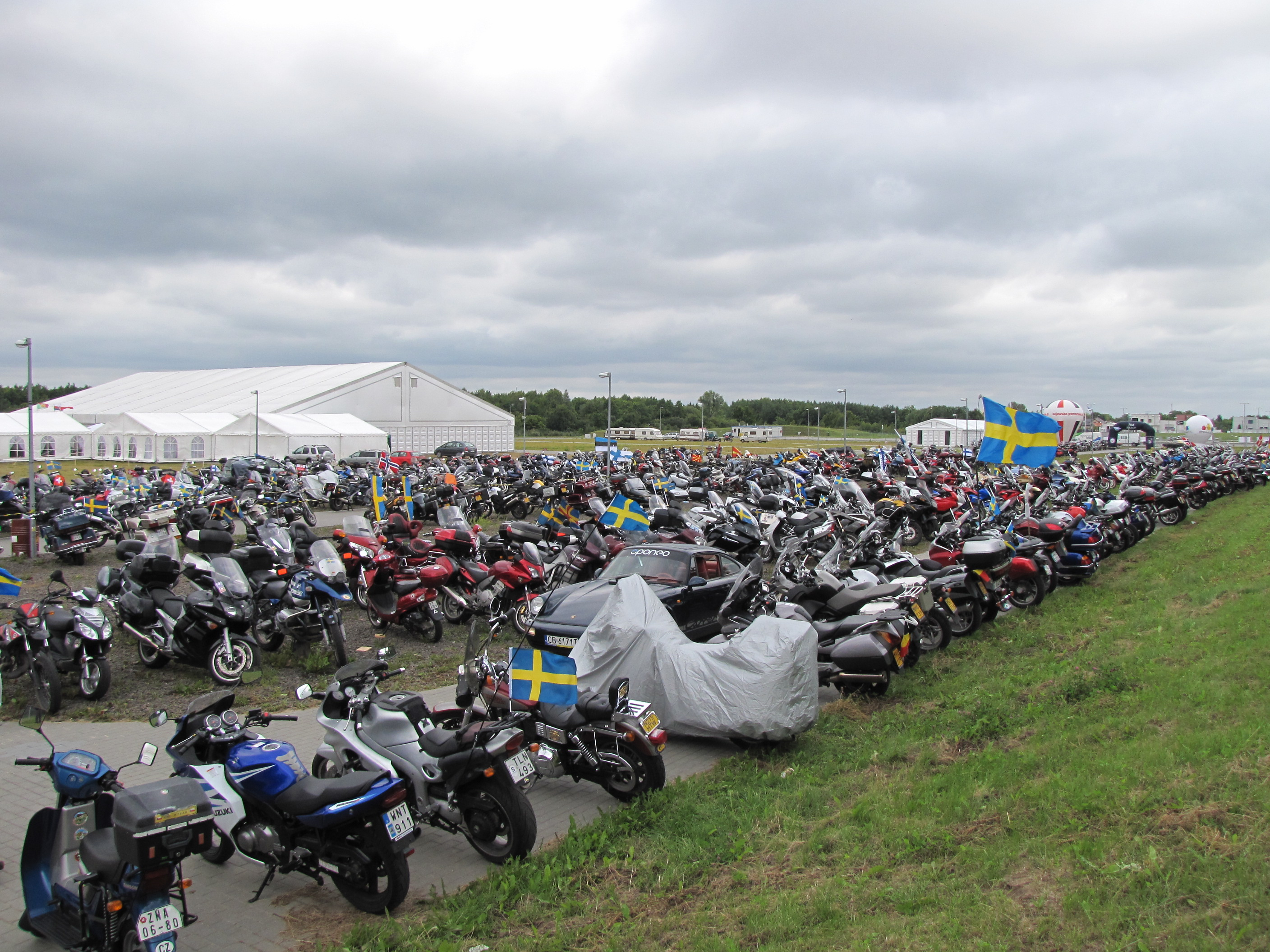 67. FIM Rally Bydgoszcz